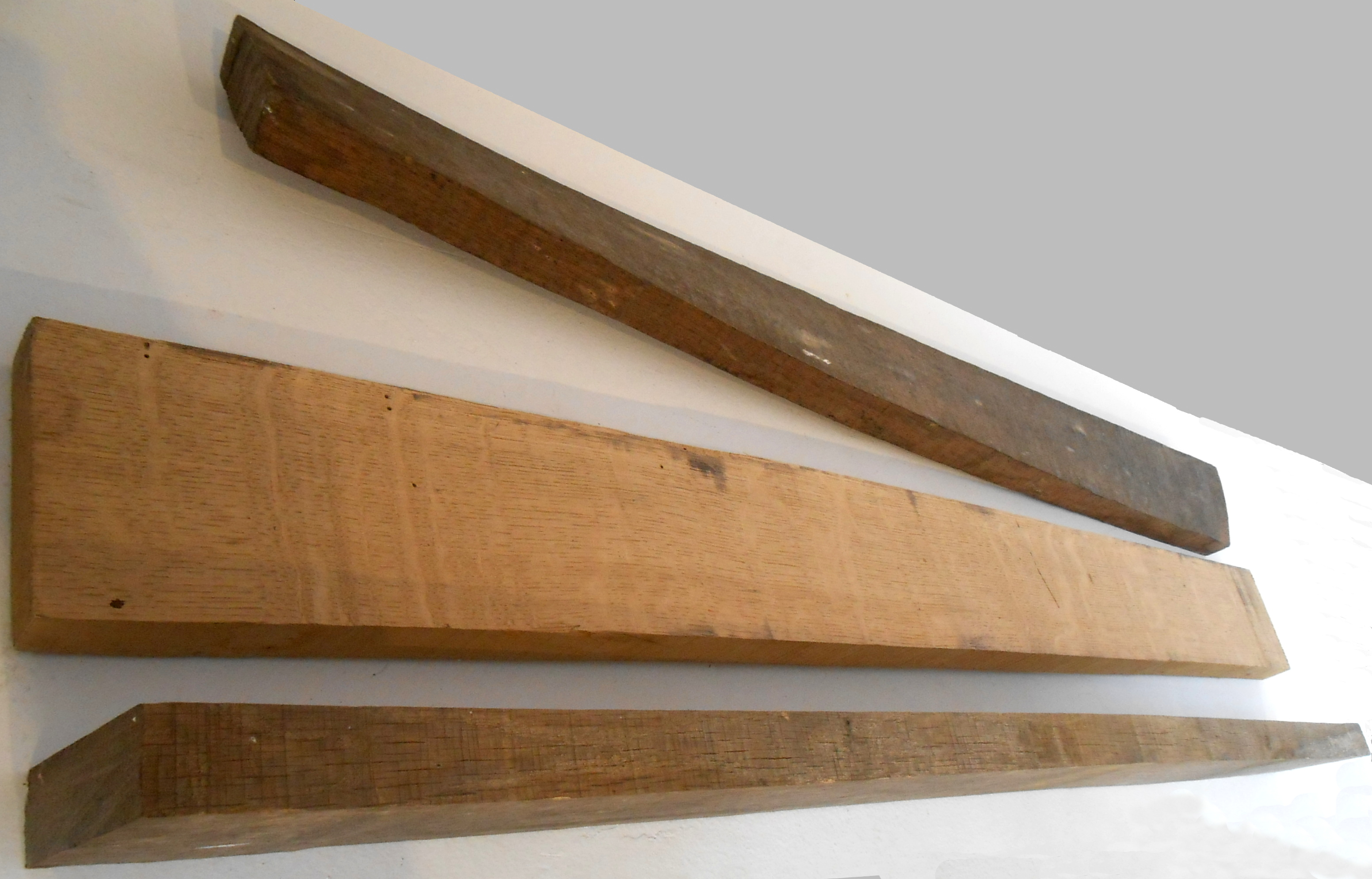 Planks to be transformed in stave for wooden barrels, France.